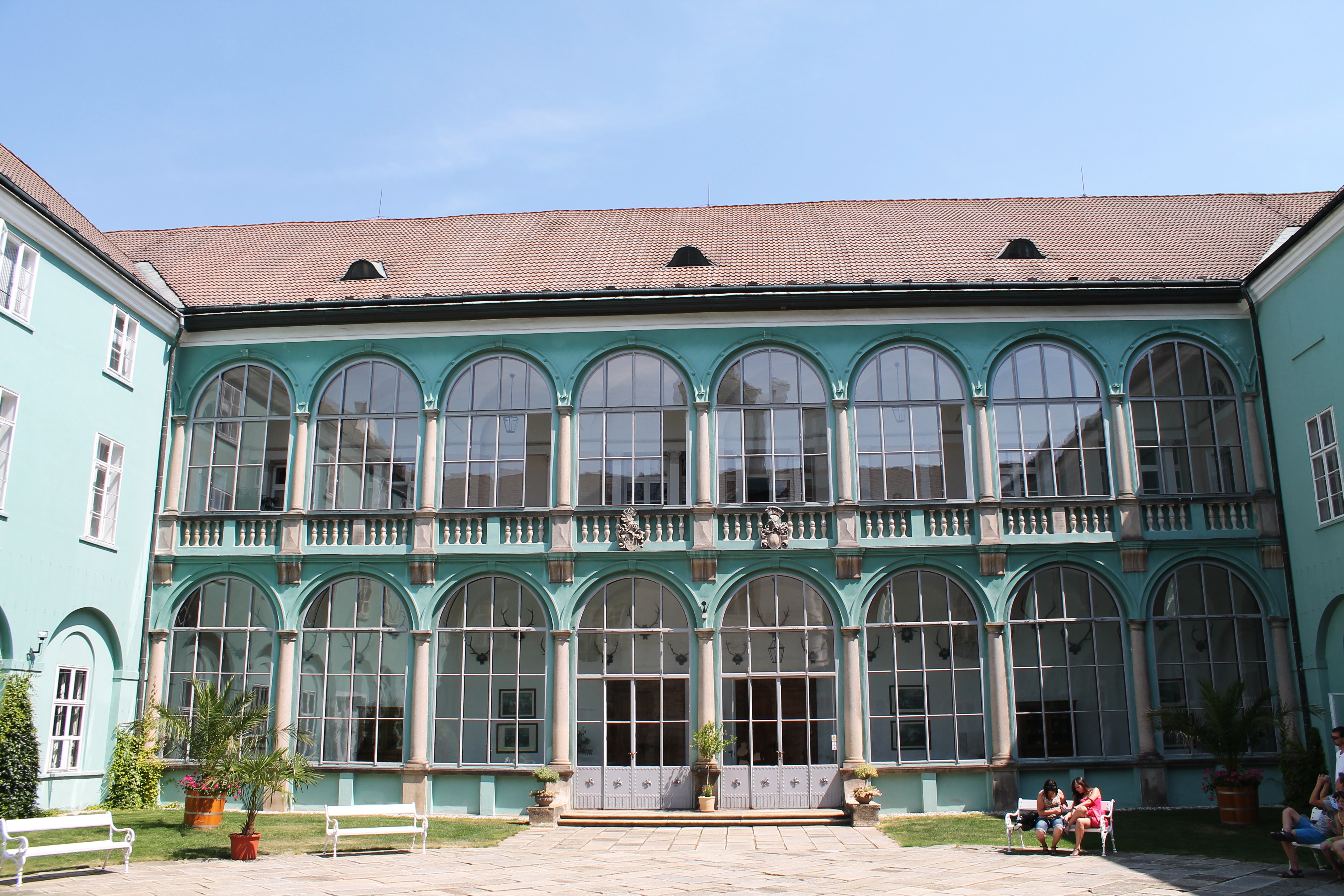 New castle, Dačice, Jindřichův Hradec District, Czech Republic - OpenStreetMap (Info)